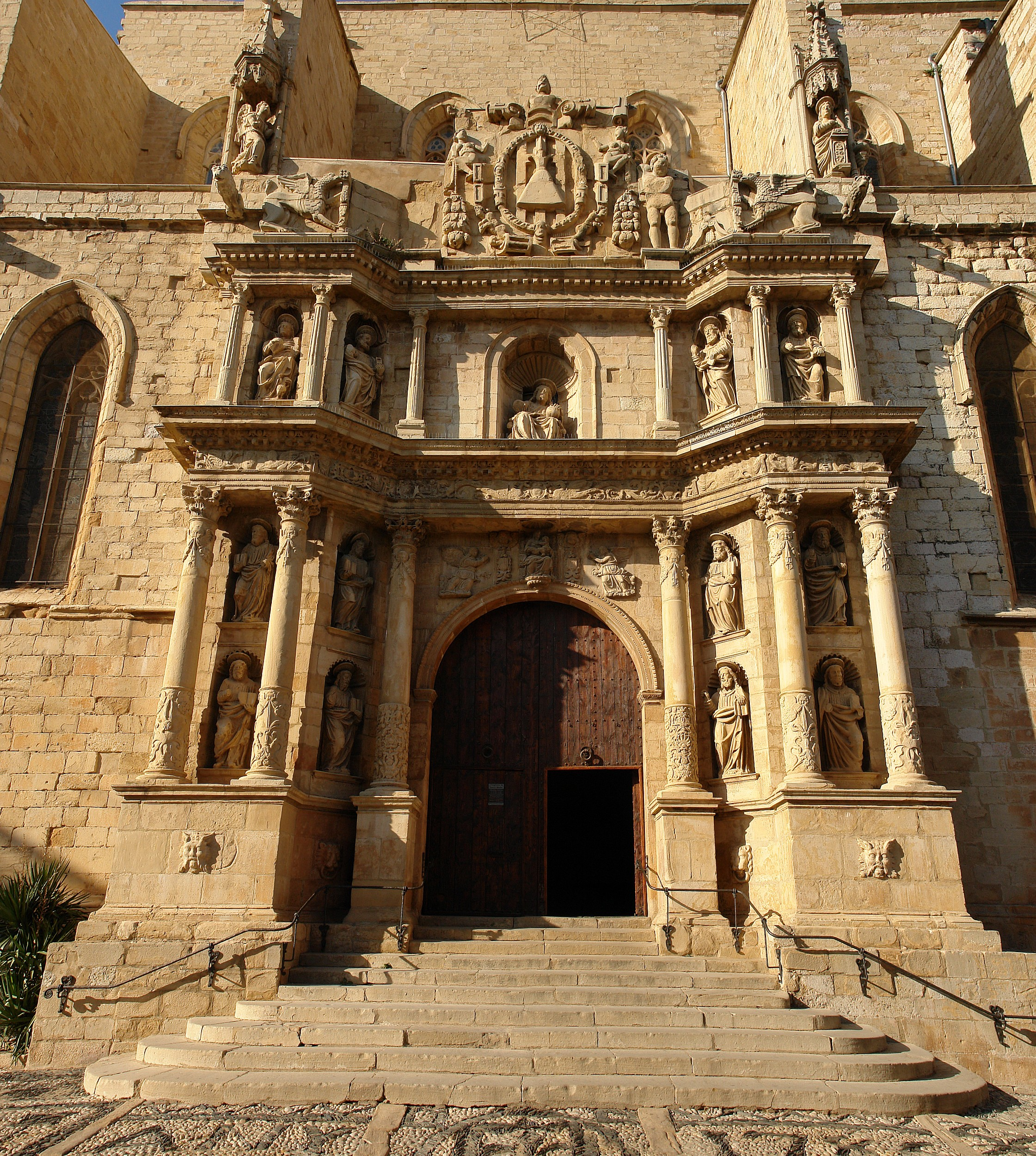 Barroque entrance - Church of Santa Maria in Montblanc (Spain) Obtained by stiching two pictures Montblanc is the capital of the Catalan comarca Conca de Barberà, in the Spanish province of Tarragona.